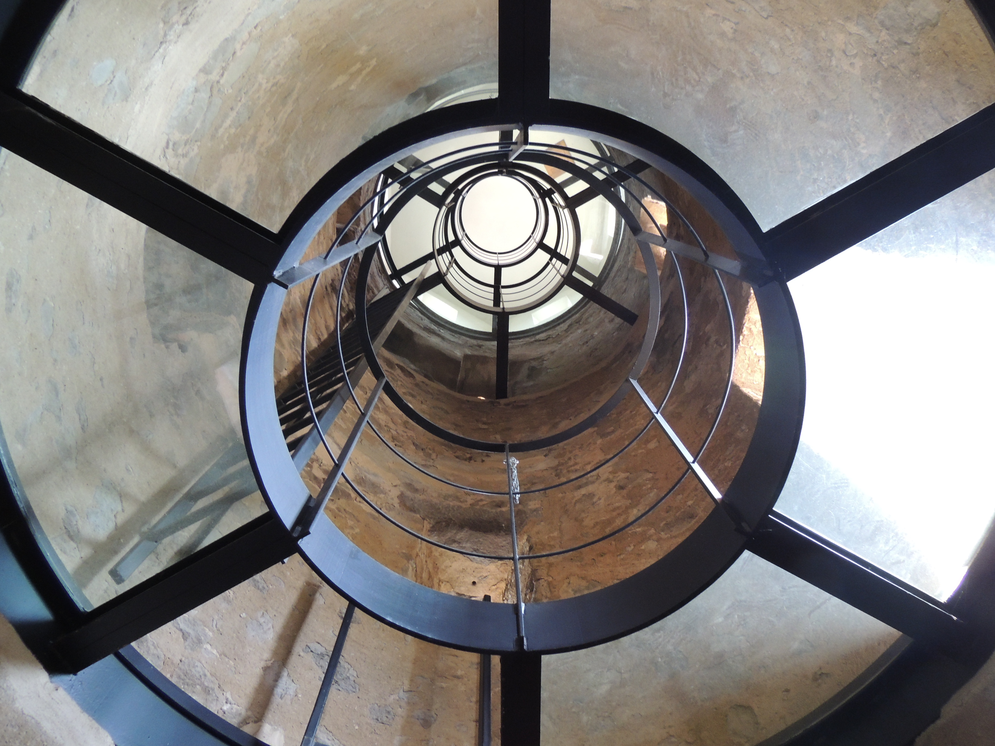 Interior of the Galluswarte in Frankfurt am Main-Gallus, situation in 2015